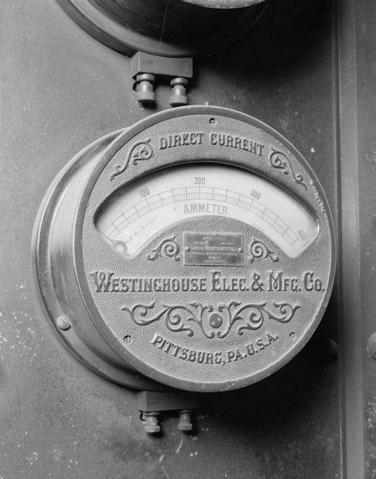 Ammeter from New York Terminal Service Plant, 250 West Thirty-first Street, New York